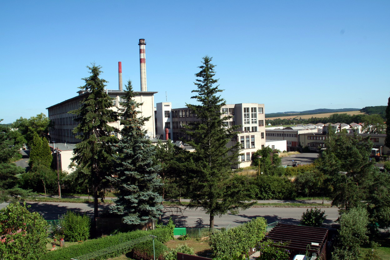 Former glove-production factory in Dobříš